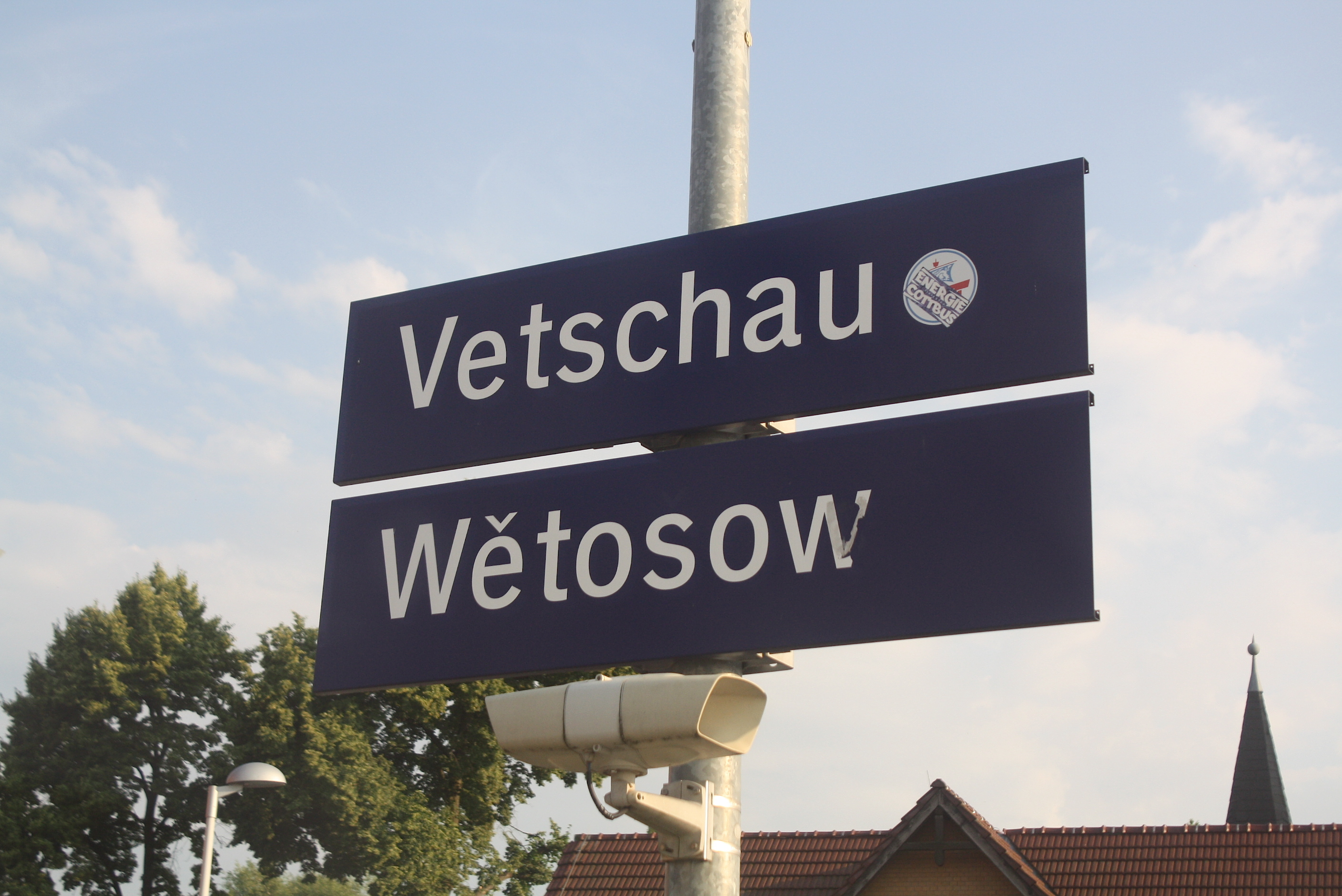 Bilingual sign at the railway station at Wětošow (in Lower Sorbian)/Vetschau (in German), Lower Lusatia, province Brandenburg in Germany.